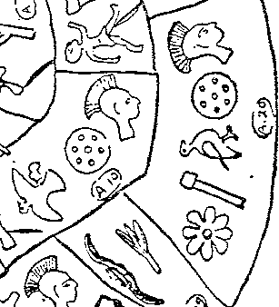 An excerpt of the Phaistos disc (for userbox)